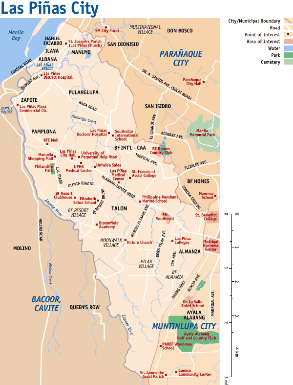 Map of Las Piñas in Metro Manila, Philippines.